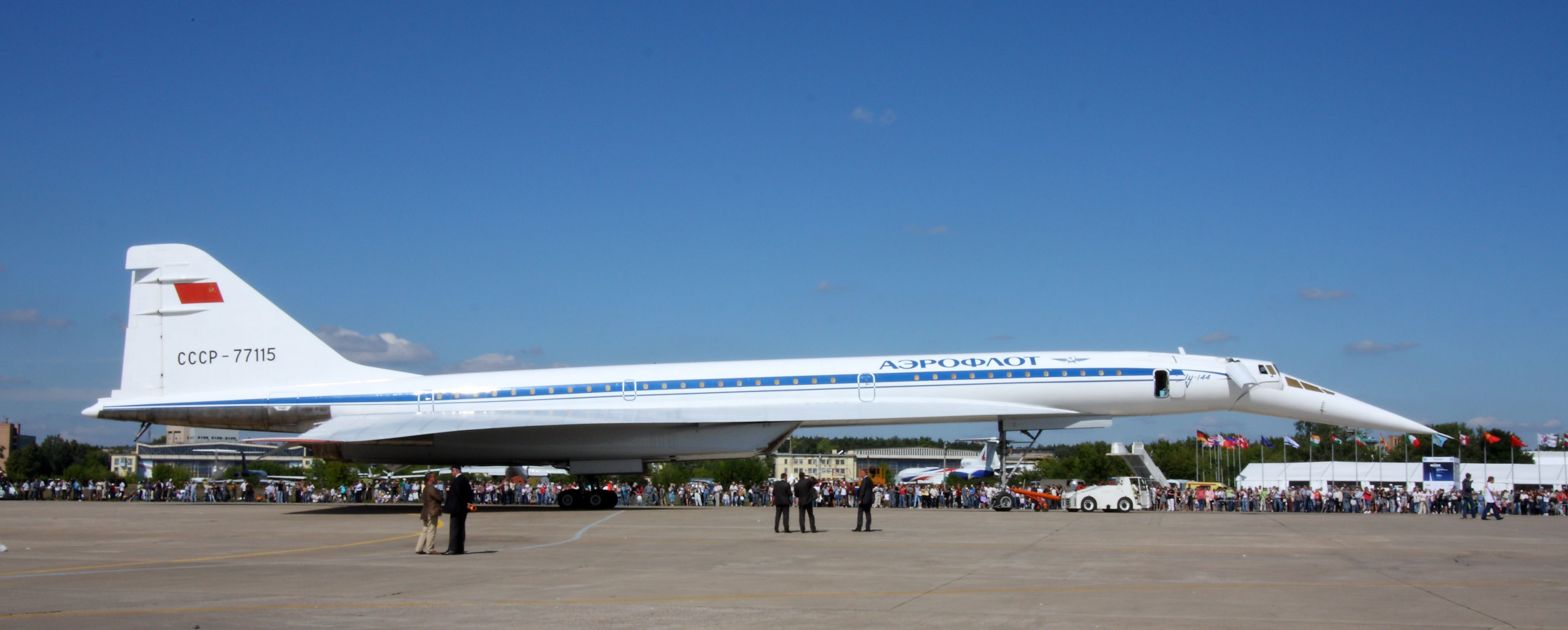 Tupolev Ту-144D Charger, a board number 77115 (The international aerospace salon MAKS-2011)